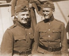 Colonel "Wild Bill" O'Donovan, left, and Father Francis Duffy, chaplain of the 69th New York, returning from France after World War 1.